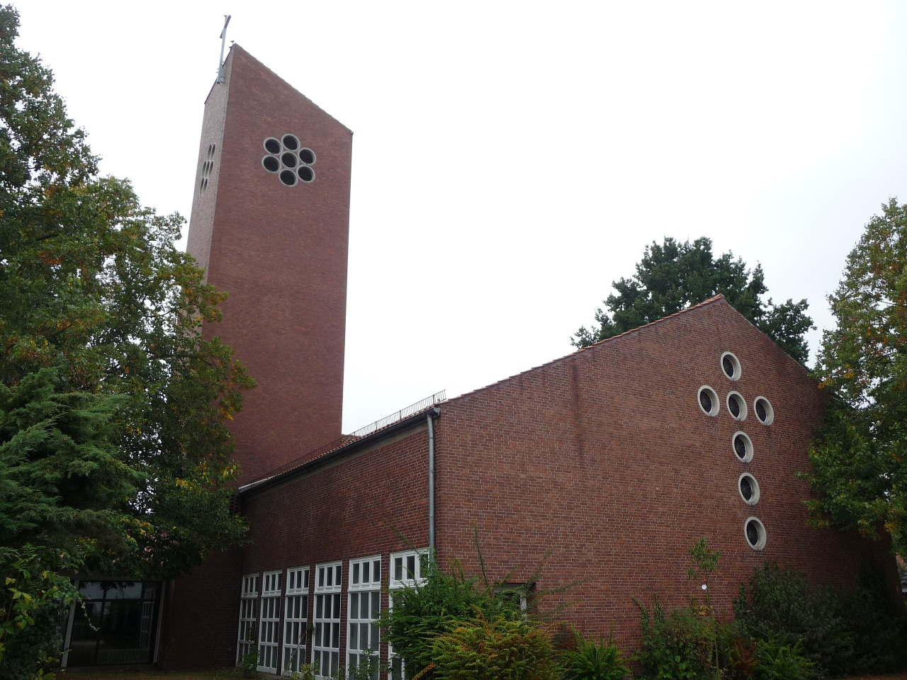 Lutheran Christopher Church in Bremen-Vegesack